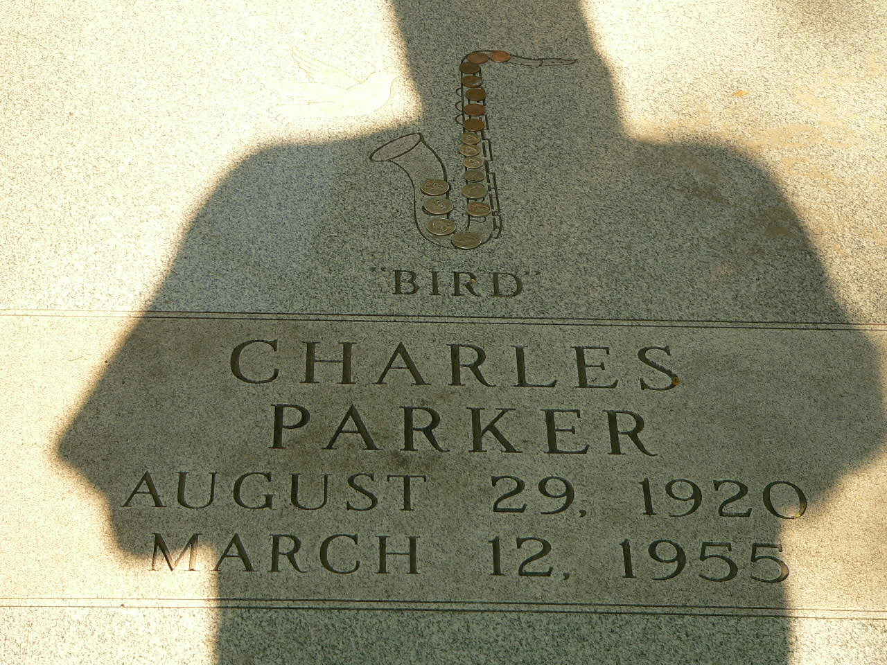 in Lincoln Cemetery in Kansas City, Missouri. grave plate, Charlie Parker.